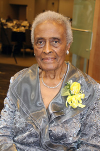 Rosetta James, Voting Rights Advocate